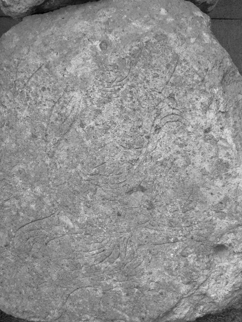 Hitomarutsuka